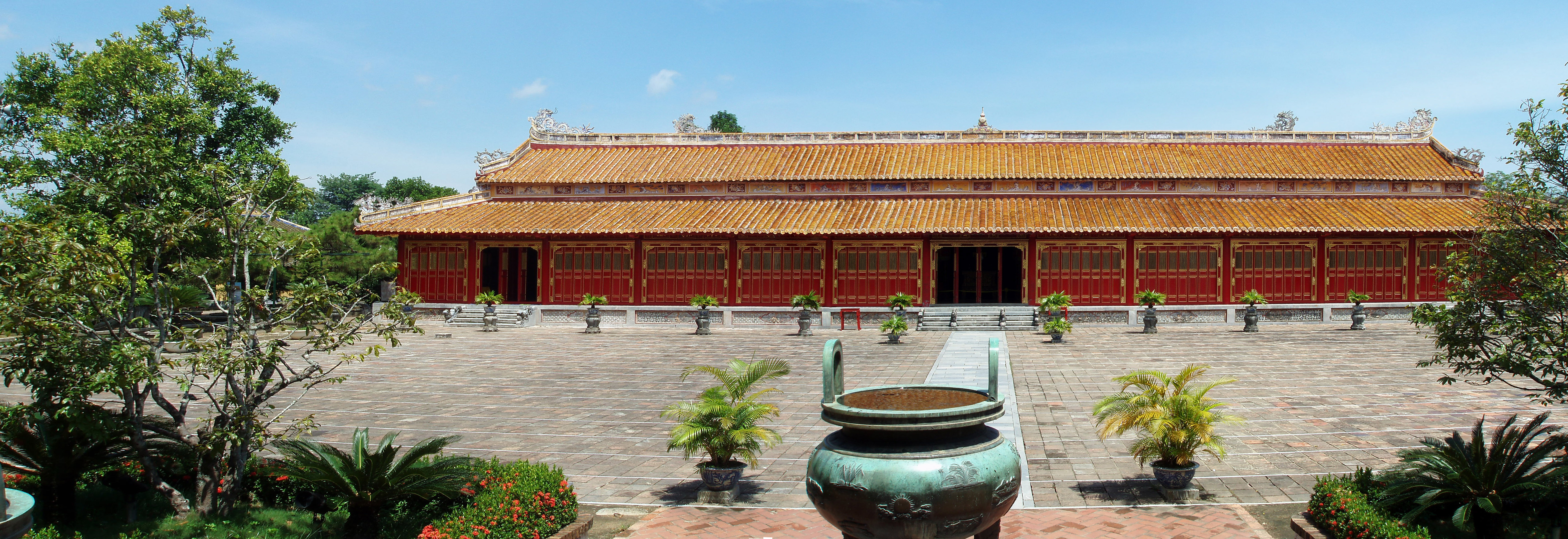 The Mieu Tempel in the Imperial City, Hue.